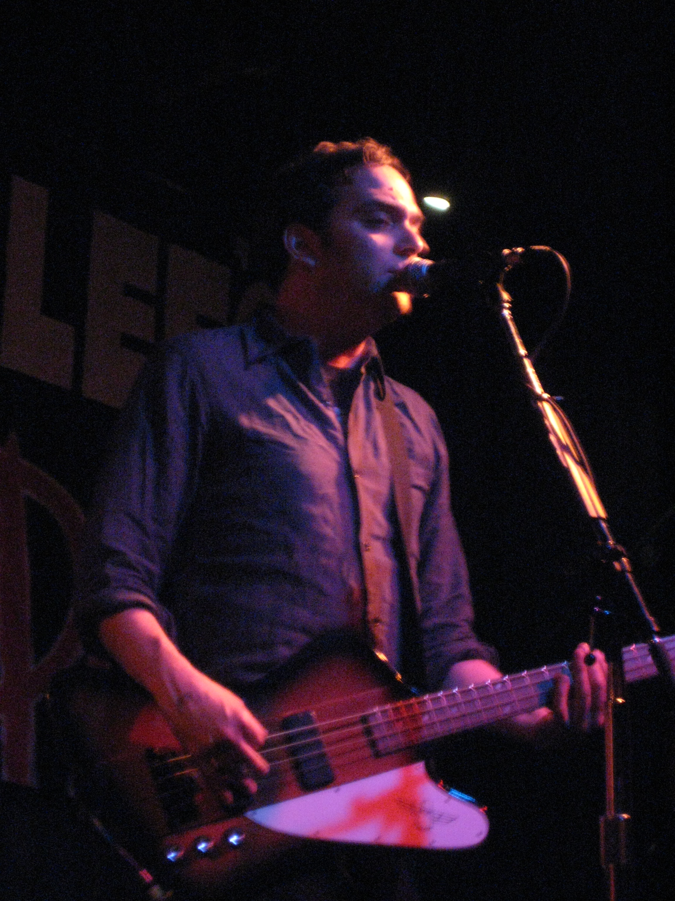 Adam Schlesinger in concert with Fountains of Wayne, in Toronto